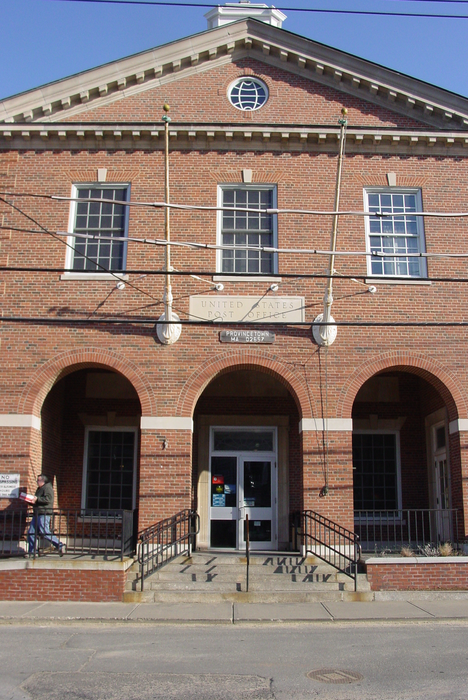 Provincetown Post Office on Commercial Street. A Historic contributing property to the Provincetown Historic District.